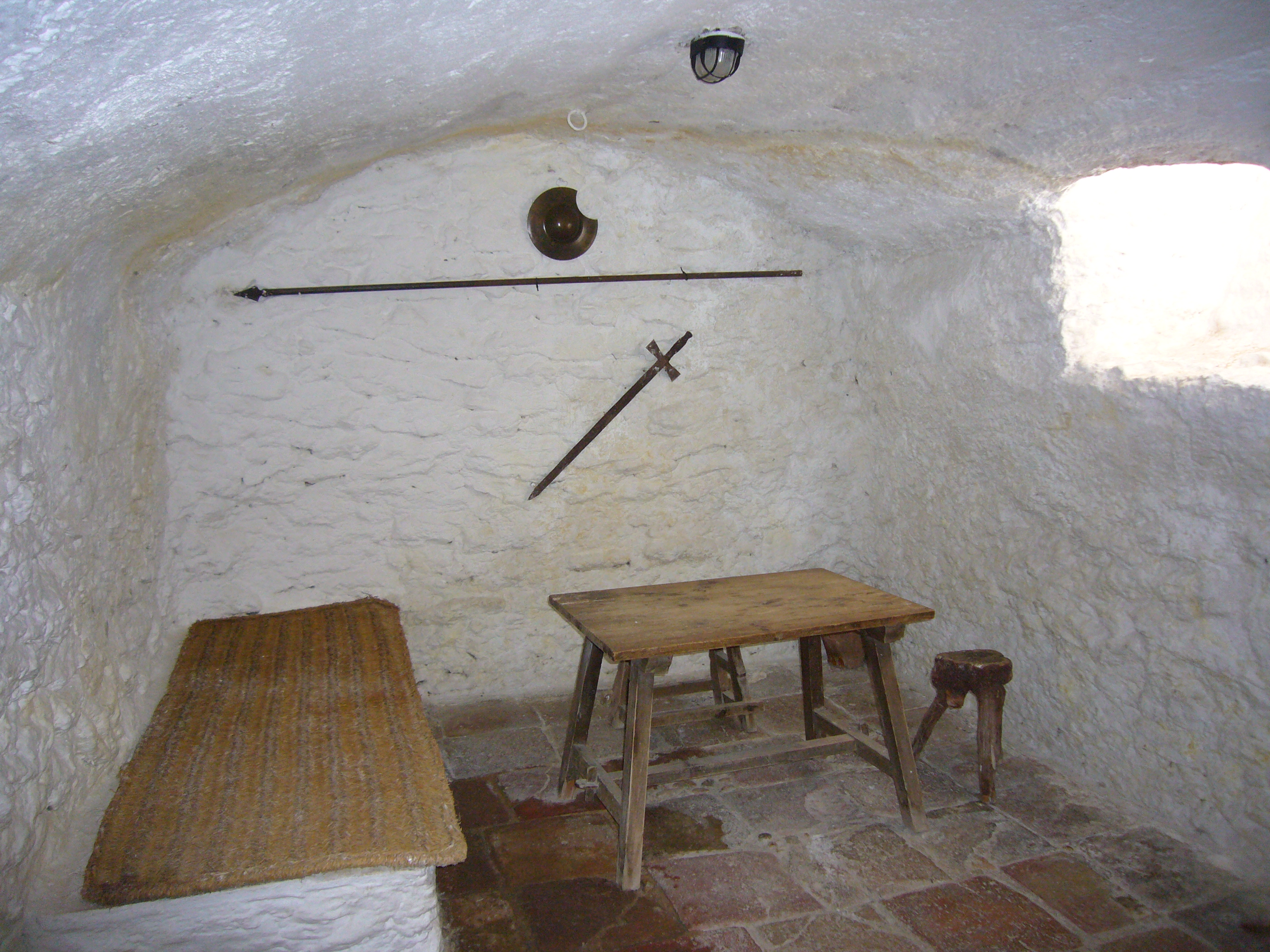 Inside the house of Medrano where Miguel de Cervantes was imprisoned in their underground cave. Argamasilla de Alba (Ciudad Real).